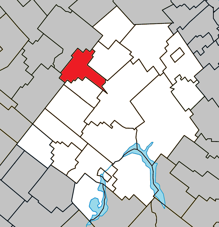 Location of Saint-Jean-de-Brébeuf, Quebec within Les Appalaches Regional County Municipality.